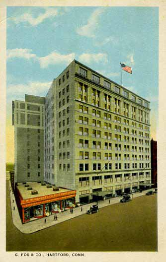 Postcard of G. Fox & Co., in downtown Hartford,Connecticut